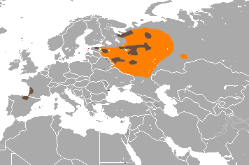 European Mink (Mustela lutreola) range (brown - extant, red - introduced, orange - possibly extinct)